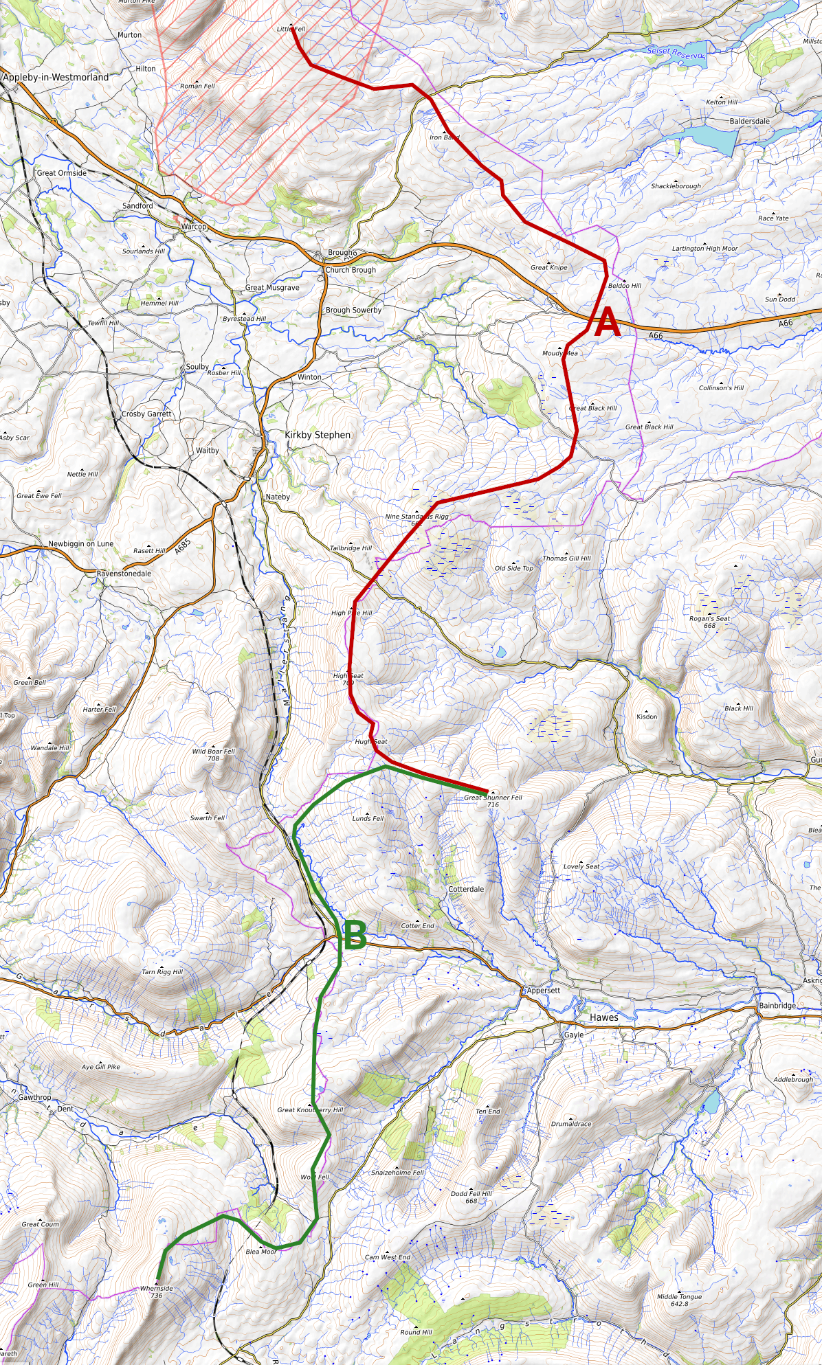 Determining the relative height of Great Shunner Fell (716 m), showing the two highest possible paths to Whernside (736 m) resp. Little Fell (745 m). While Whernside is nearer, the path has to descend to Garsdale Head at 324 m (B), whereas the path to Little Fell is nowhere lower than 419 m (A).